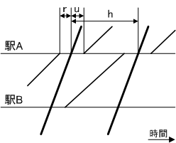 Explanation figure about double track capacity.